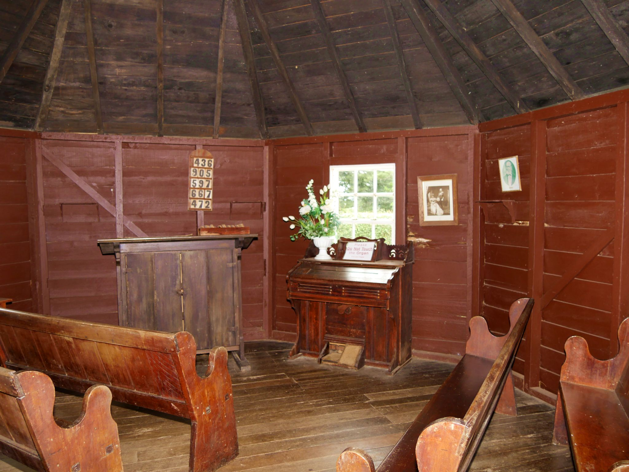 Oruaiti Chapel, Whangarei, Northland, New Zealand, build 1861, (view from inside)